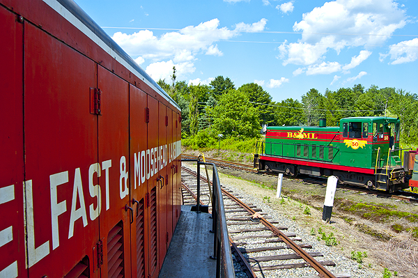 BML#50 heading inland on the Belfast & Moosehead Lake Railway main line, and BML#53 at the City Point Central Railroad Museum turnout (MP 2.5), Belfast, Maine. Both are GE 70-ton diesel electric locomotives; #50 was purchased new by the B&ML in 1946, and #53 was acquired used in 1970 from the Montpelier & Barre Railroad in Vermont.